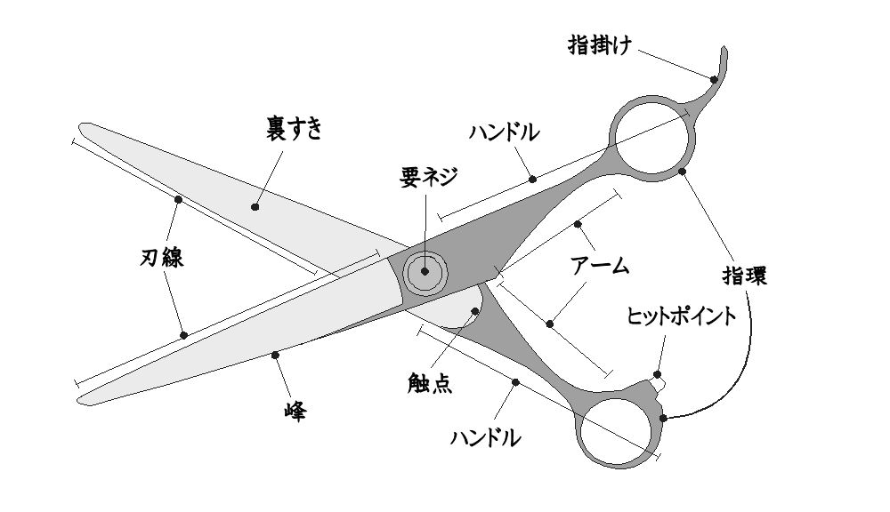 Name of each part of scissor